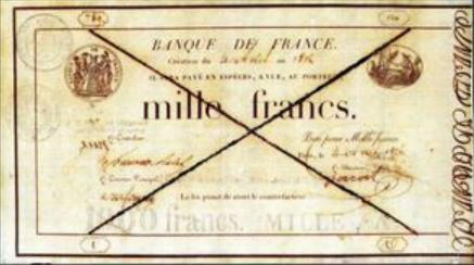 Temporary version of the 1000 french franc Banknote printed in 1814 by the Banque de France